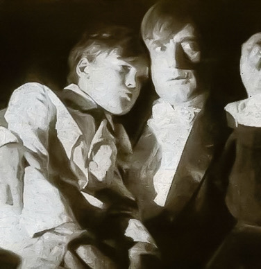 Little Billie (Raymond Hackett) and John (Raymond Hitchcock) discuss their plans to kill the "Ringtailed Rhinoceros", screenshot of image published in The Movie Pictorial (New York, N.Y.), October 1, 1914, p. 20; promotion for the Lubin film The Ringtailed Rhinoceros released in August 1915.